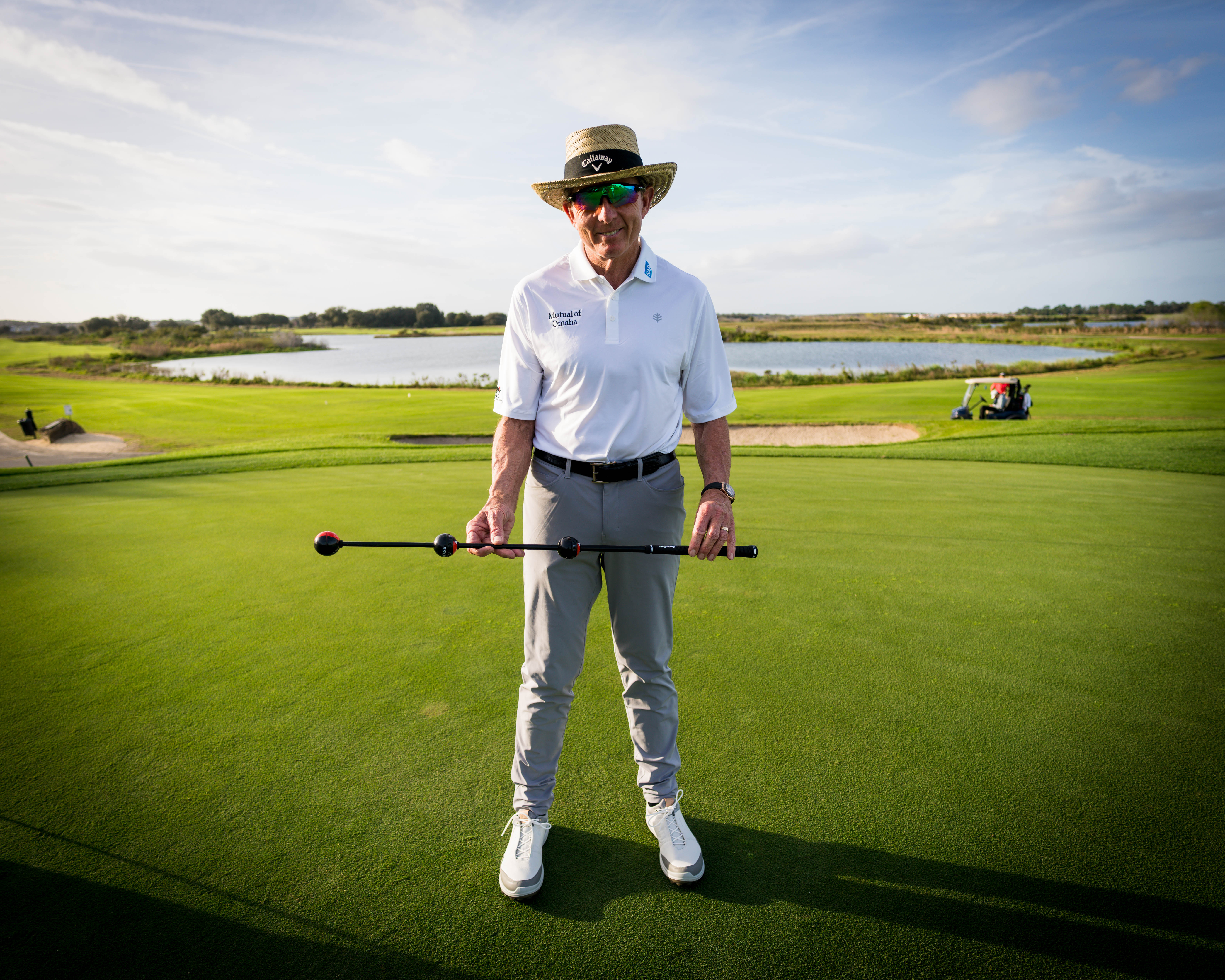 David Leadbetter is regarded by many as the world’s premiere golf instructor, 2017 PGA Teacher of the Year, PGA Hall of Fame Professional and a regular contributor to the Golf Channel.